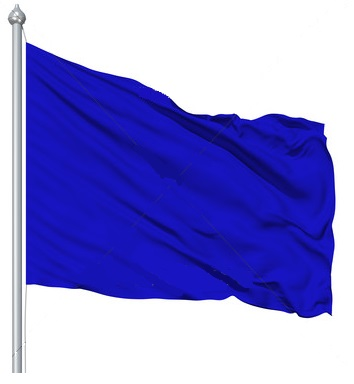 Bandera de Pozo del Molle - color azul